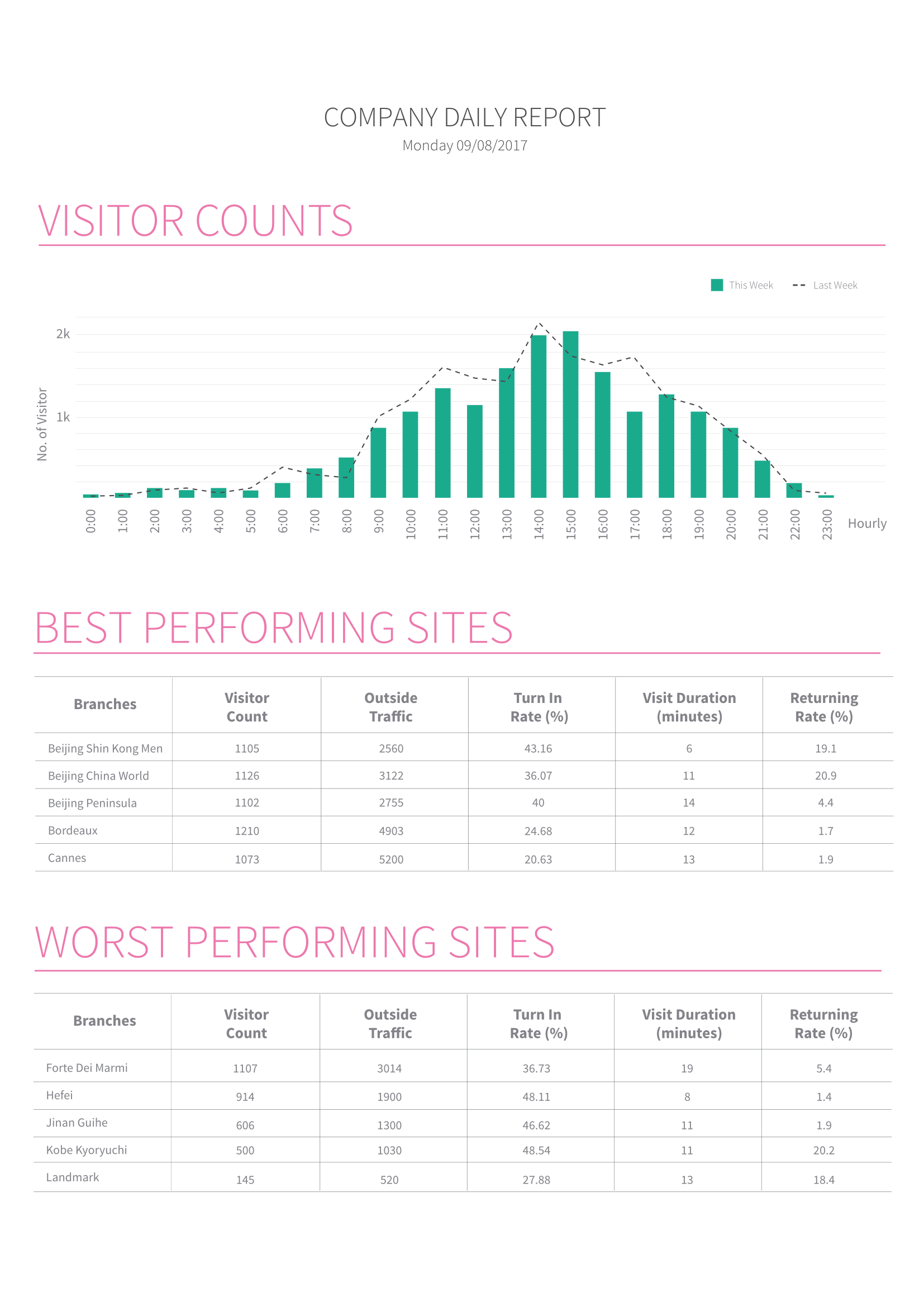 A sample report that reports visitor count in a particular day. The report data is aggregated from the all the stores under the company branch and shows the top 5 best and worst performing sites.